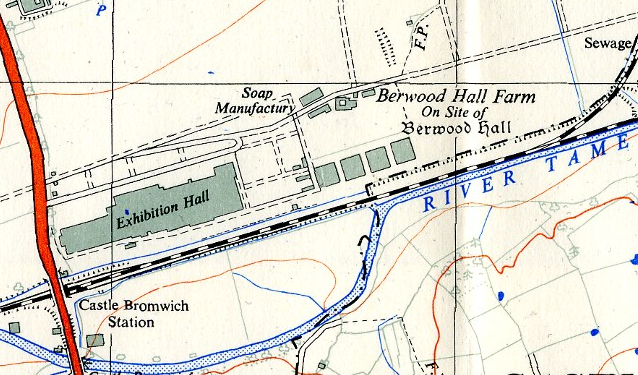 British Industries Fair exhibition hall at Castlle Bromwich, Birmingham, England, on Ordnance Survey 1st edition 1:25000 map